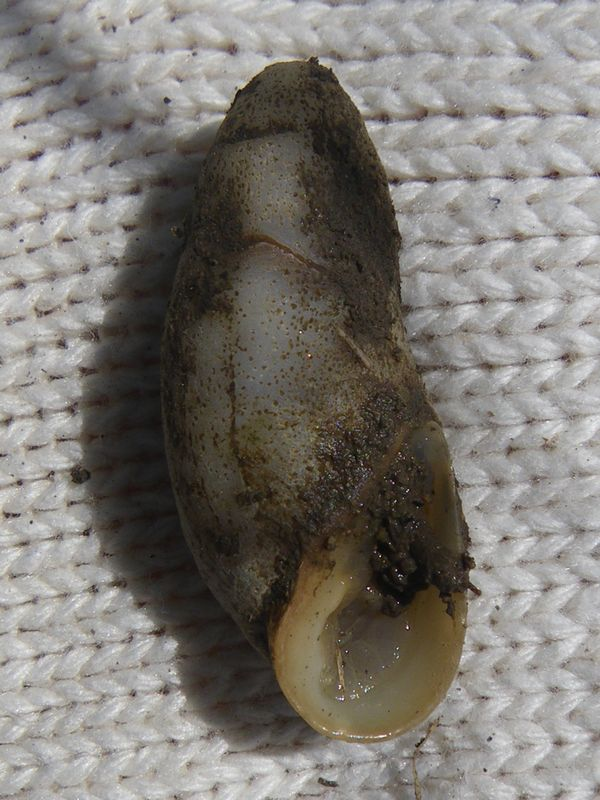 Ellobium chinense (Pfeiffer,1864),Old specimen